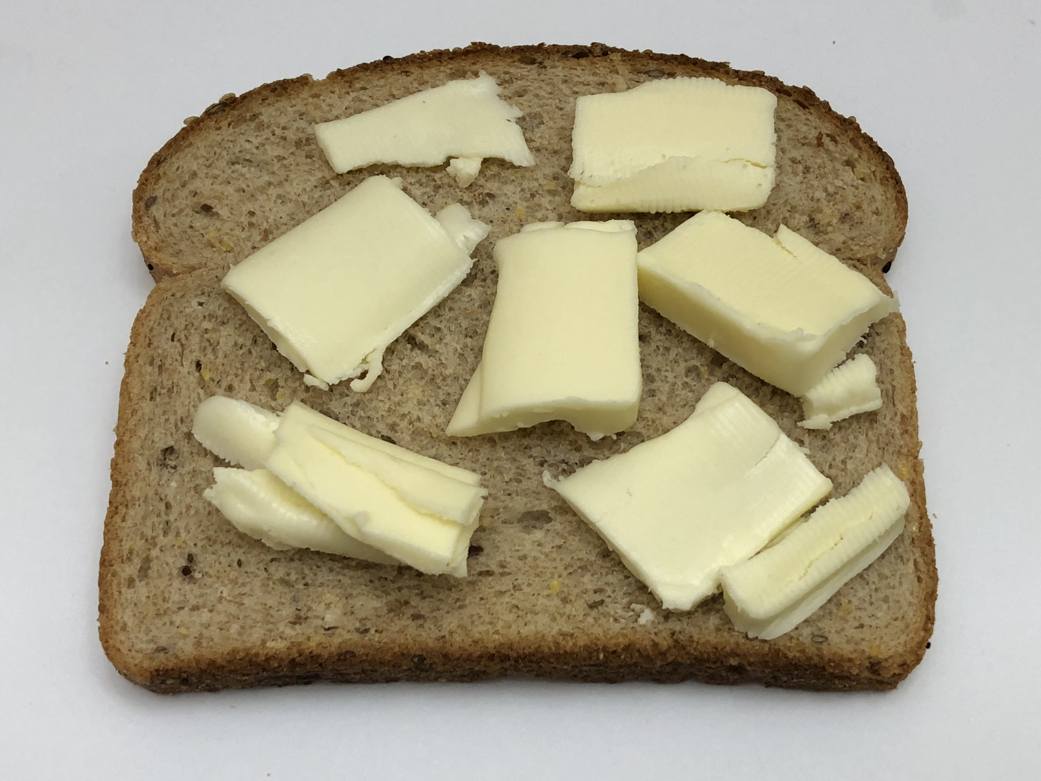 A single slice of Arnold Whole Grain 100% Wheat Bread with Land O' Lakes butter in the Franklin Farm section of Oak Hill, Fairfax County, Virginia